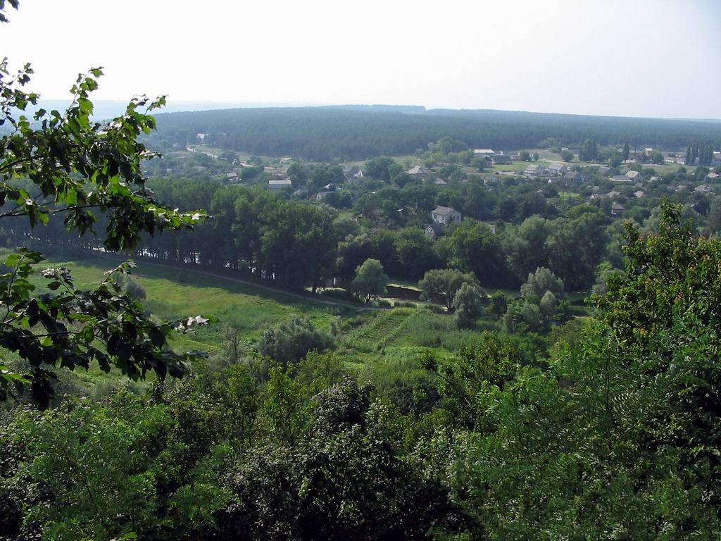 View of Chyhyryn, Ukraine from the city's Castle Hill.